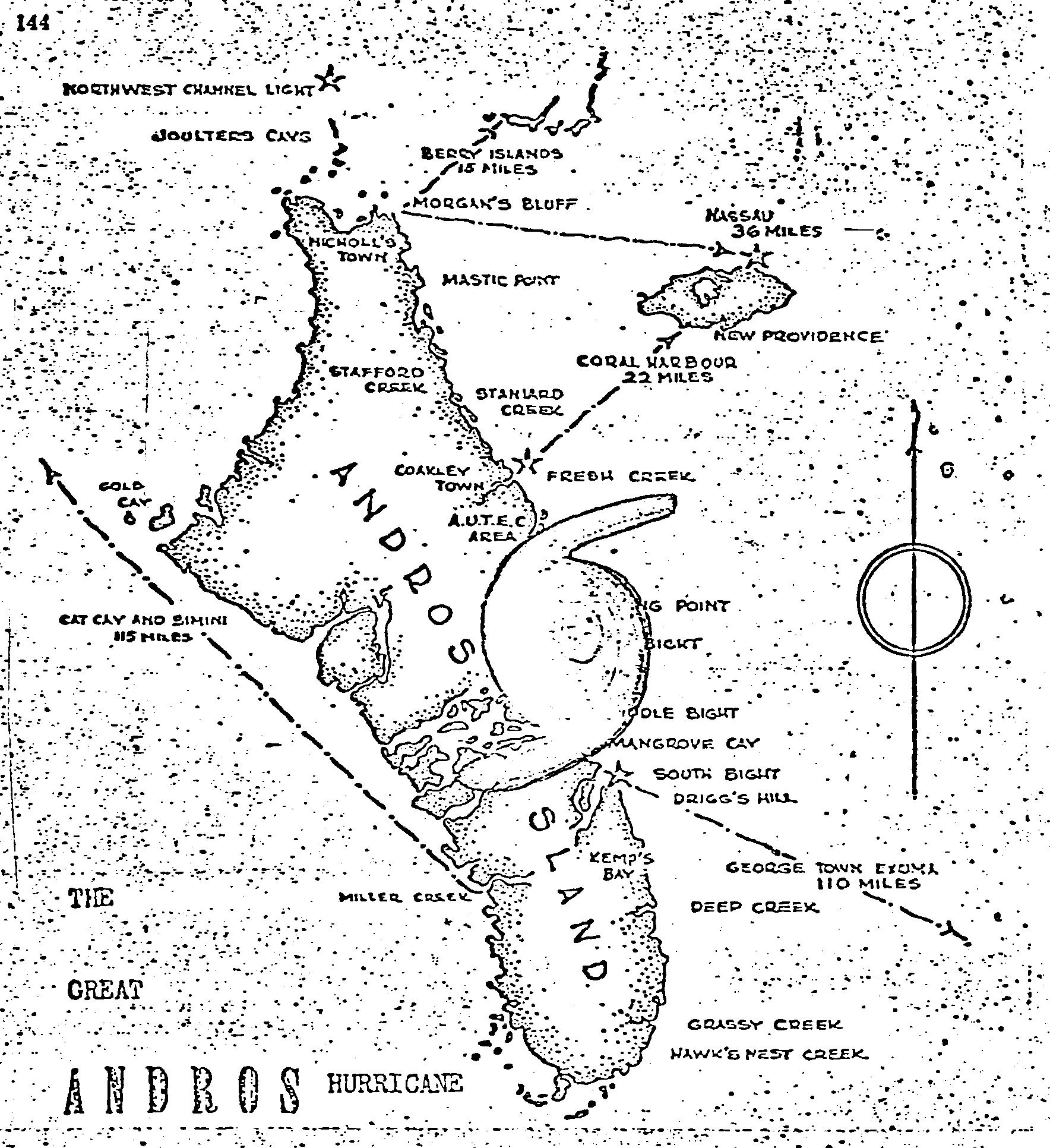 A handwritten map depicting the 1929 Bahamas hurricane striking Andros Island.